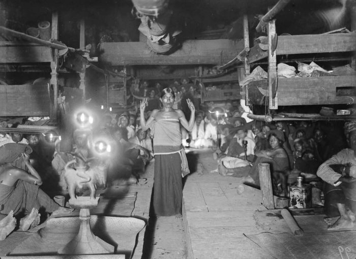 Dancing Guru sibaso (female shaman) in trance at a perumah bégu ceremony in the house of Pa Mbelgah in Kabanjahe, Karo-batak region, Sumatra.